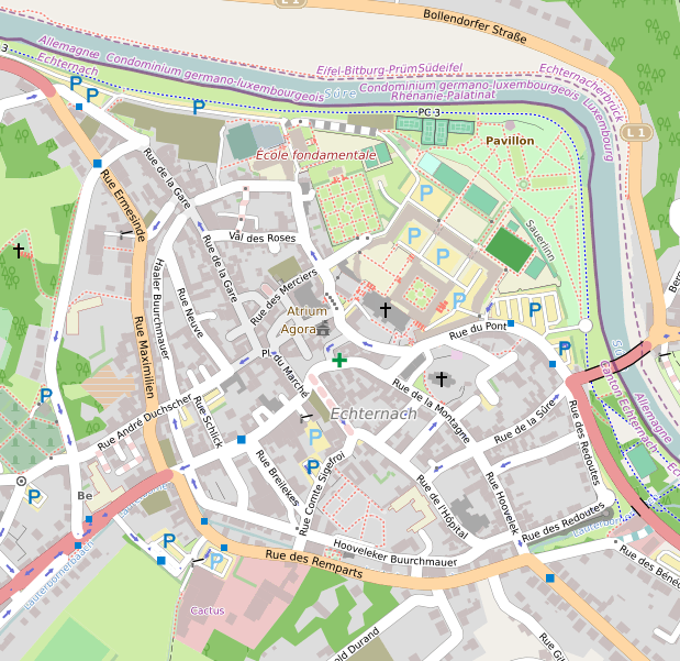 Map of the centre of the city of Echternach, Luxembourg.